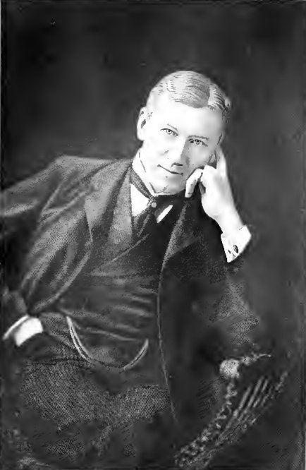 Charles Schenck Bradley (also named as Charles Schenk Bradley) (1853–1929)